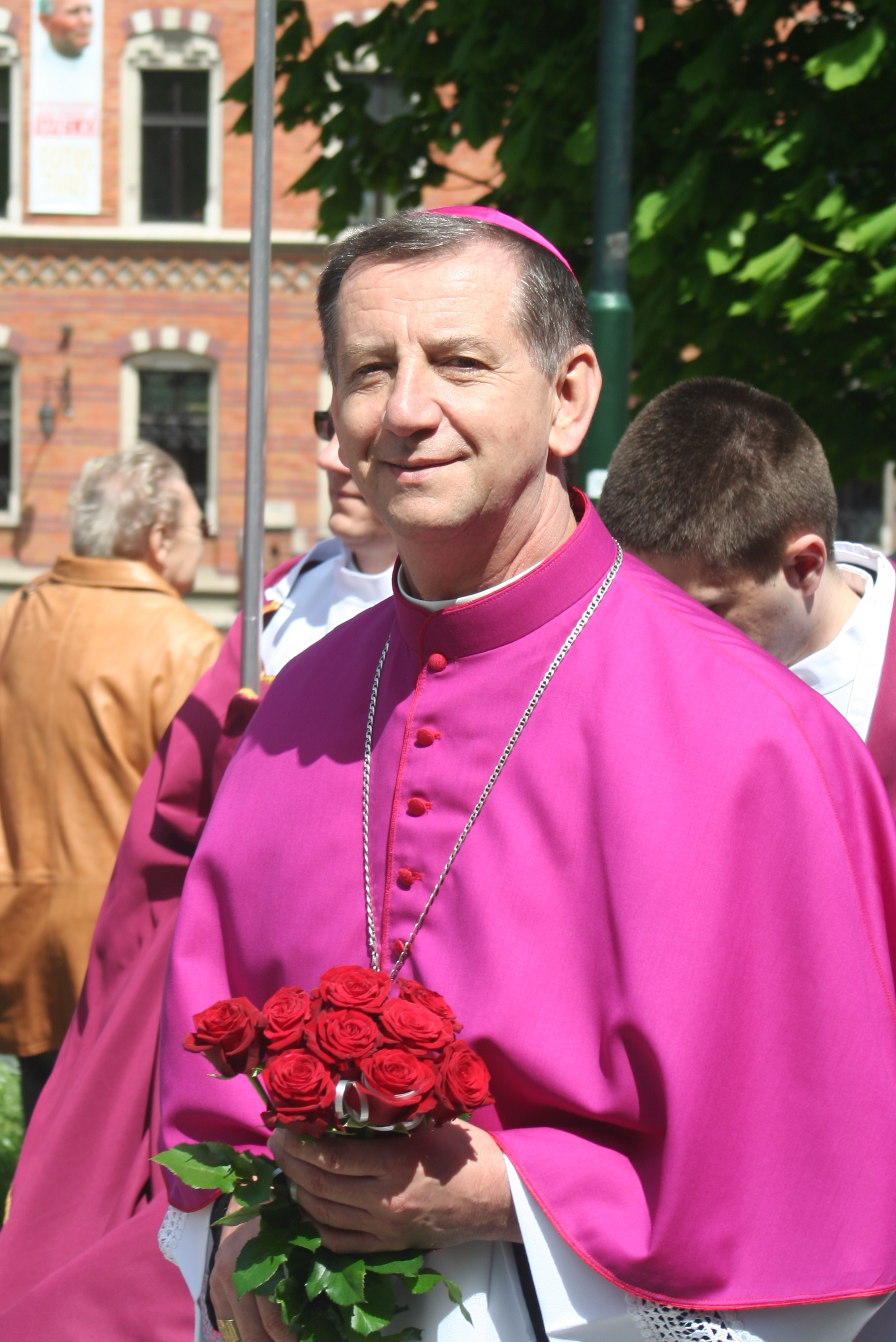 Bishop Jozef Guzdek in Krakow during the procession of St. Stanislaus from Wawel to Skałka May 8, 2011